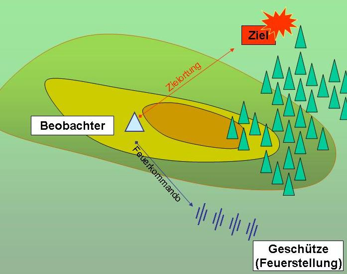 German Tactical Artillery Observation in World War I